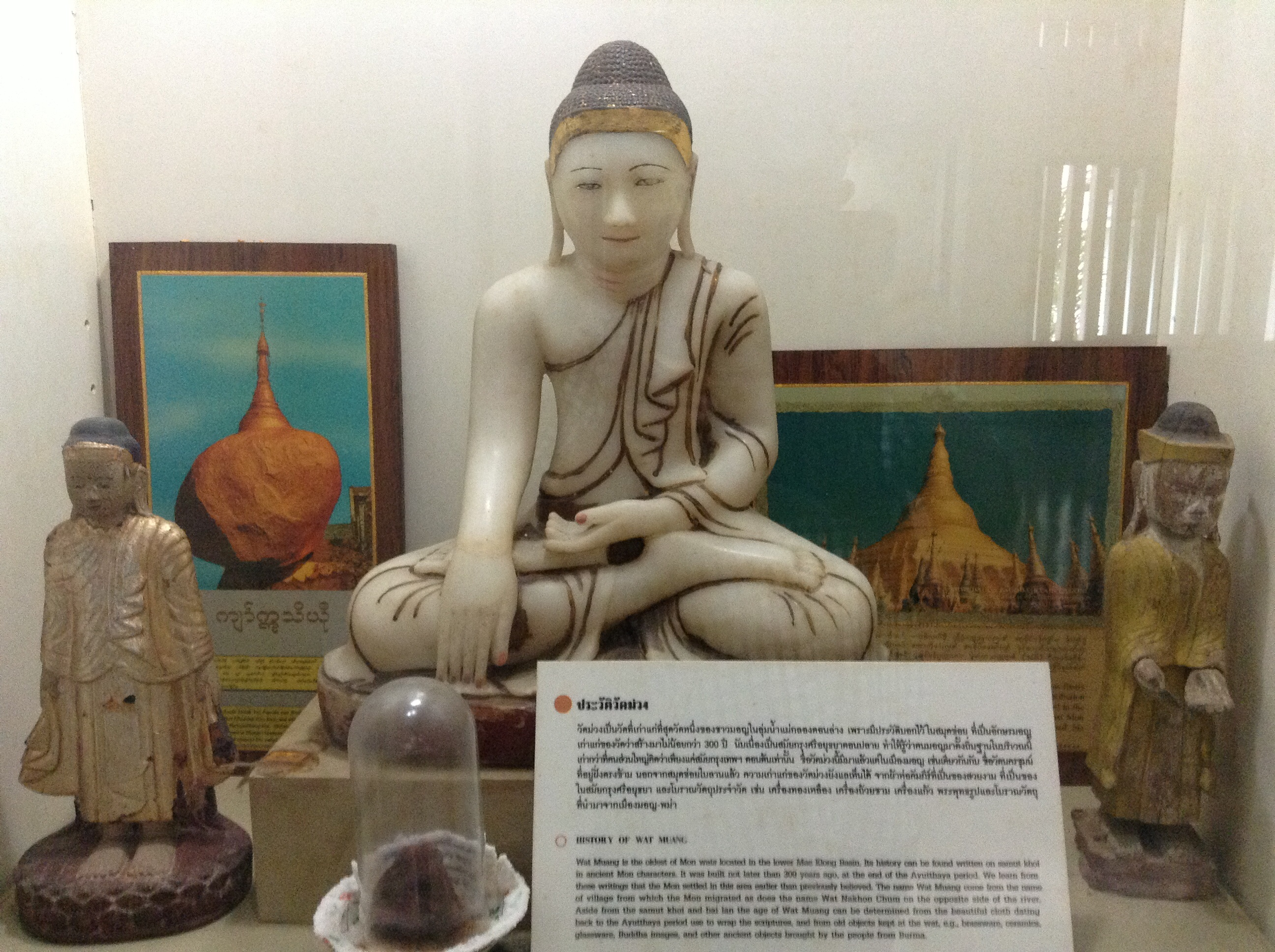 Wat Muang, a temple of the Mon community in Ban Pong district, Ratchaburi province